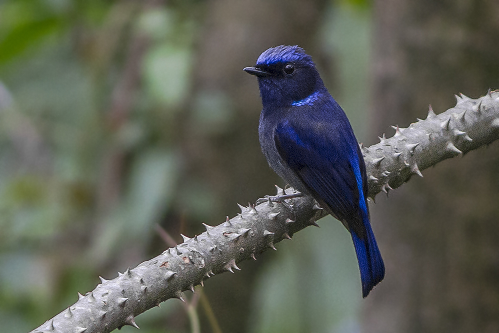 The specie Small Niltava had been photographed at Pangolakha Wildlife Sanctuary of East Sikkim, India during birding and bird photography trip of GoingWild on 24.05.2015.